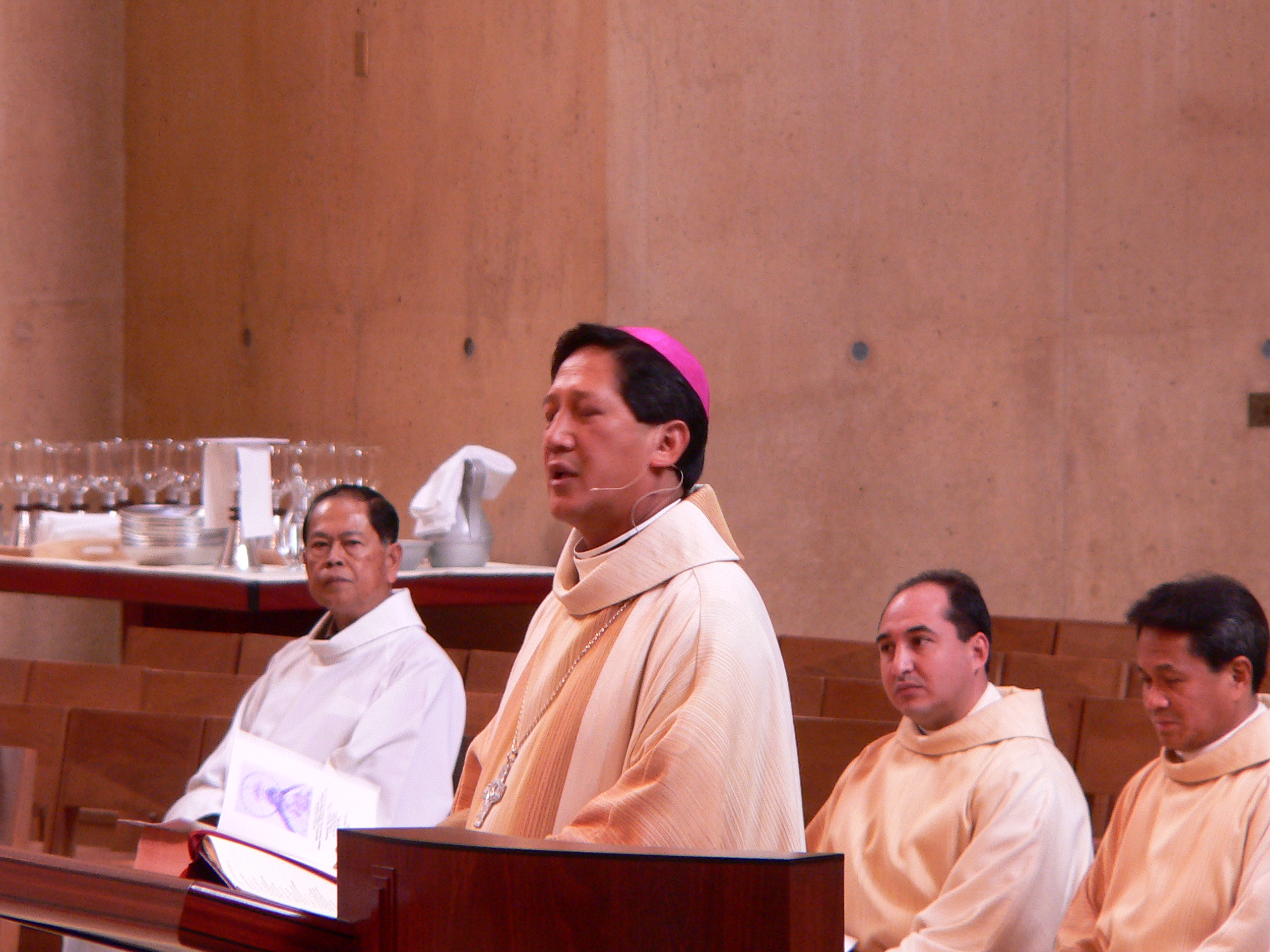 Bishop Oscar A. Solis at Los Angeles Cathedral